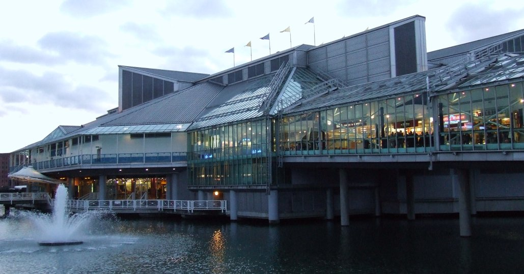 Princes Quay shopping centre, Hull, UK. The complex is constructed on stilts over Princes Dock. Photograph taken from Princes Dock Street.